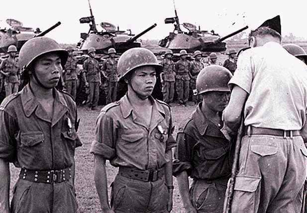 French officer and State of Vietnam soldiers